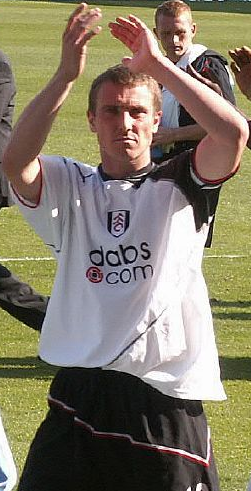 Lee Clark. Image cropped from original at flickr.